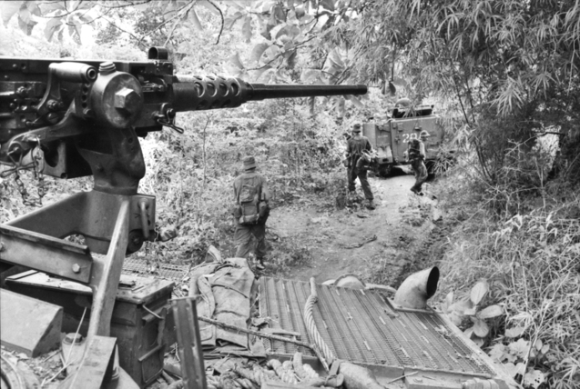 SOUTH VIETNAM. 1966-08-19. DURING OPERATION SMITHFIELD AUSTRALIAN ARMOURED PERSONNEL CARRIERS (APCS) OF 1 APC SQUADRON AND SOLDIERS ON FOOT SWEEP ALONG IN PURSUIT OF RETREATING VIET CONG TROOPS IN PHUOC TUY PROVINCE. THE CHASE FOLLOWED A SAVAGE BATTLE AT LONG TAN IN WHICH MEMBERS OF 6TH BATTALION, THE ROYAL AUSTRALIAN REGIMENT (6RAR), APCS AND ARTILLERY FIRE KILLED 250 ENEMY SOLDIERS.